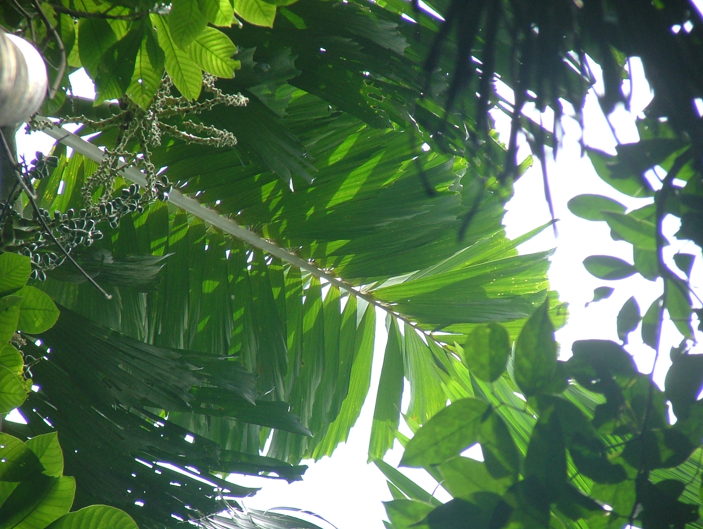 A photograph of a leaf of Socratea exorrhiza, photographed on Gigante peninsula of Gatun Lake, Panama